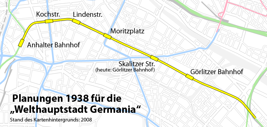 Situation of the former planned Ost-West-S-Bahn in the current Berlin transportation network. Plannings as of 1937/38 This map of Berlin was created from OpenStreetMap project data, collected by the community.This map may be incomplete, and may contain errors. Don't rely solely on it for navigation.